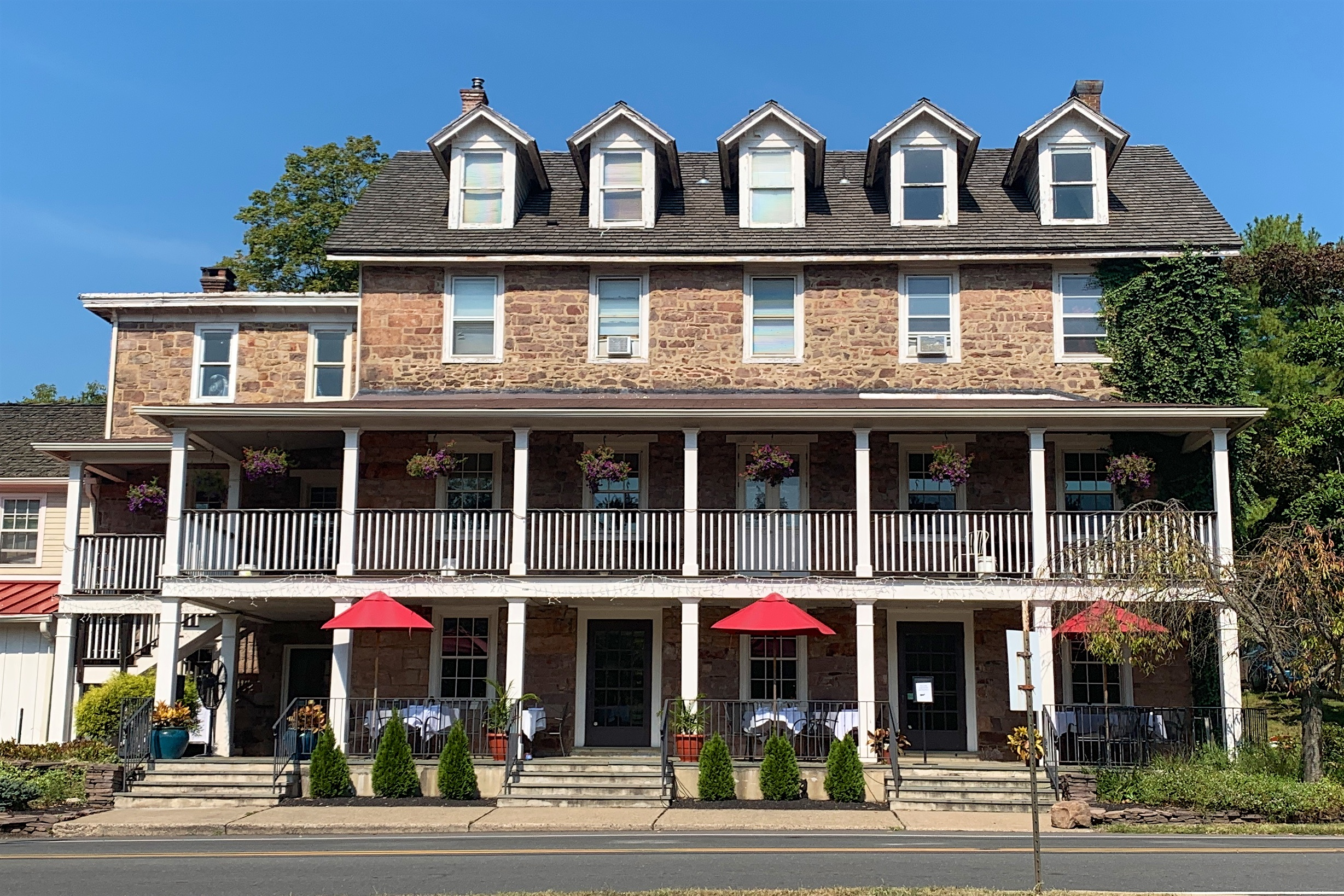 The Pittstown Inn, also known as Hoff Mills Inn, in Pittstown, New Jersey. Contributing property #1 in the Pittstown Historic District.